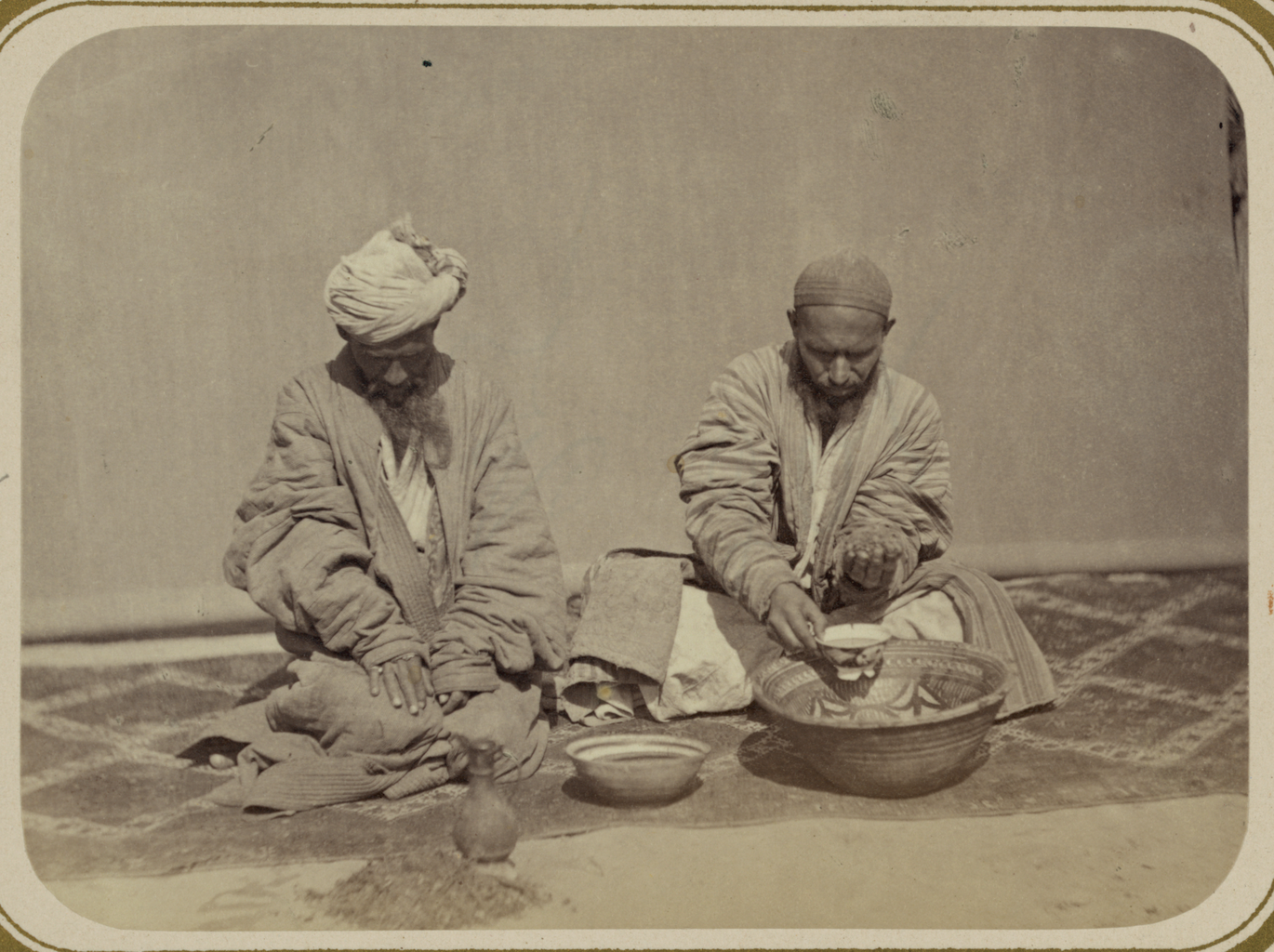 This photograph is from the ethnographical part of Turkestan Album, a comprehensive visual survey of Central Asia undertaken after imperial Russia assumed control of the region in the 1860s. Commissioned by General Konstantin Petrovich von Kaufman (1818–82), the first governor-general of Russian Turkestan, the album is in four parts spanning six volumes: “Archaeological Part” (two volumes); “Ethnographic Part” (two volumes); “Trades Part” (one volume); and “Historical Part” (one volume). The principal compiler was Russian Orientalist Aleksandr L. Kun, who was assisted by Nikolai V. Bogaevskii. The album contains some 1,200 photographs, along with architectural plans, watercolor drawings, and maps. The “Ethnographic Part” includes 491 individual photographs on 163 plates. The photographs show individuals representing the different peoples of the region (Plates 1–33); daily life and rituals (Plates 34–91); and views of villages and cities, street vendors, and commercial activities (Plates 92–163). Eating and drinking; Ethnographic photographs; Group portraits; Opium; Photographic surveys; Portrait photographs; Tea; Turkic peoples